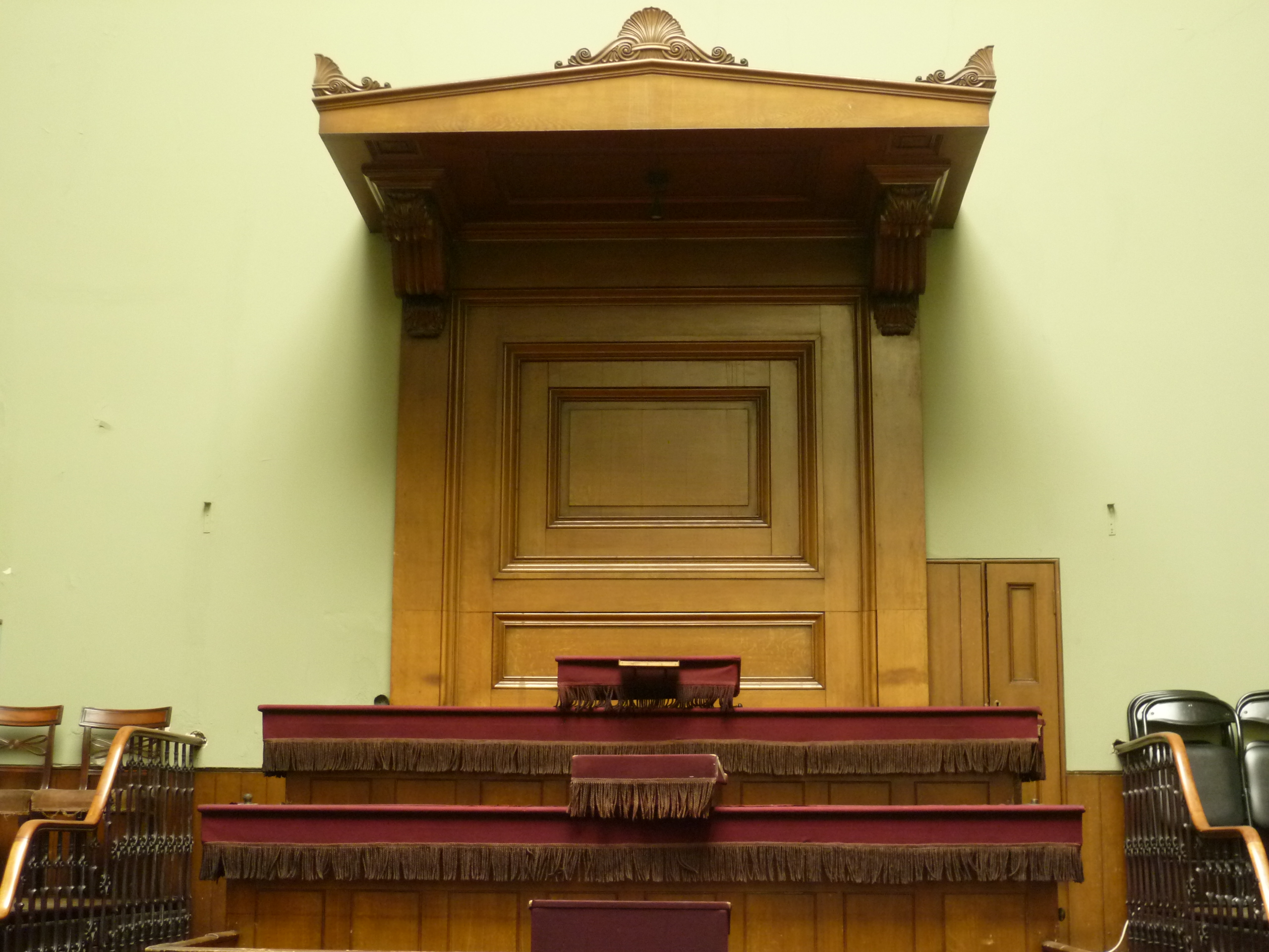 The pulpit, designed by David Bryce, was installed in 1873. The Church of Christ had no central figure as minister. Services were led by elected elders and deacons. The pulpit was arranged with three seats: the deacons occupying the lowest seat with the precentor and reader above them and four elders in the top row. No baptisms, marriages or funerals were conducted as they were seen as lacking authority in Scripture.